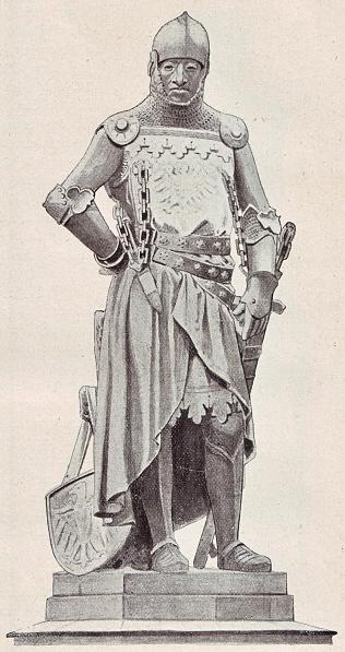 Monument commemorating to Otto V of Bavaria in the former Siegesallee in Berlin. Sculptor: Adolf Brütt, the sculpture was inaugurated on 22 March 1899.